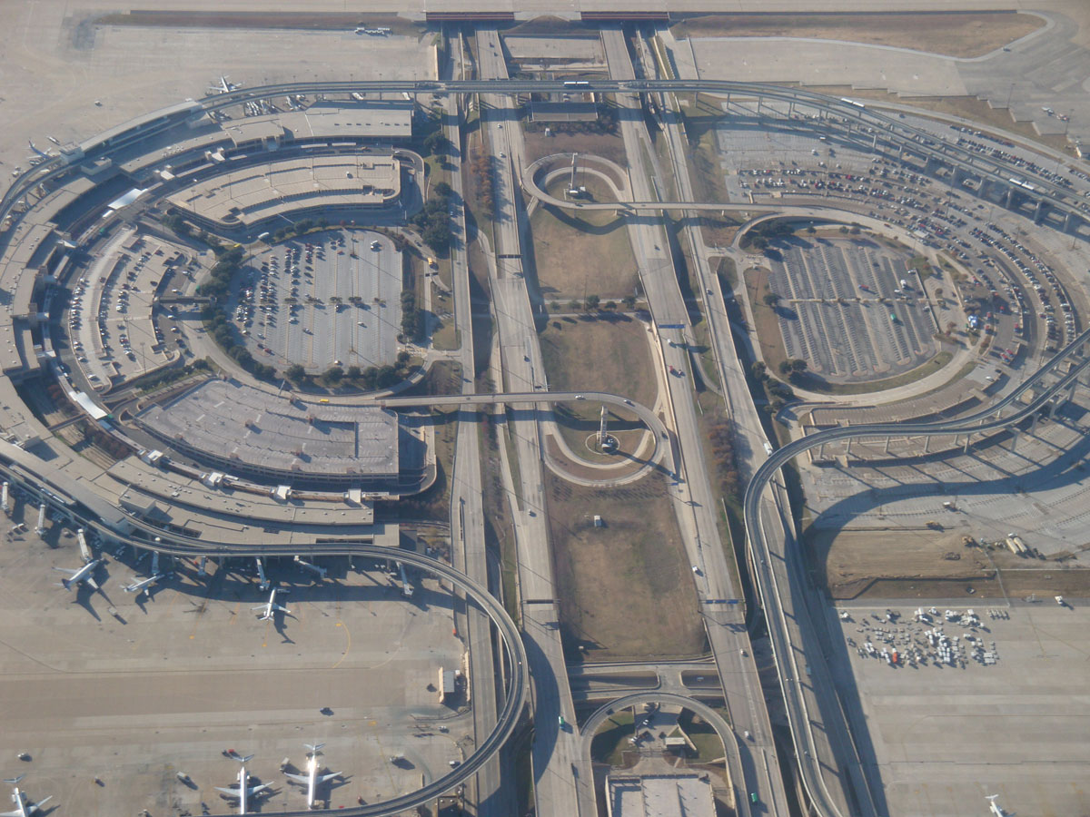 Aerial view of Terminal E at DFW International Airport showing Skylink guideway.